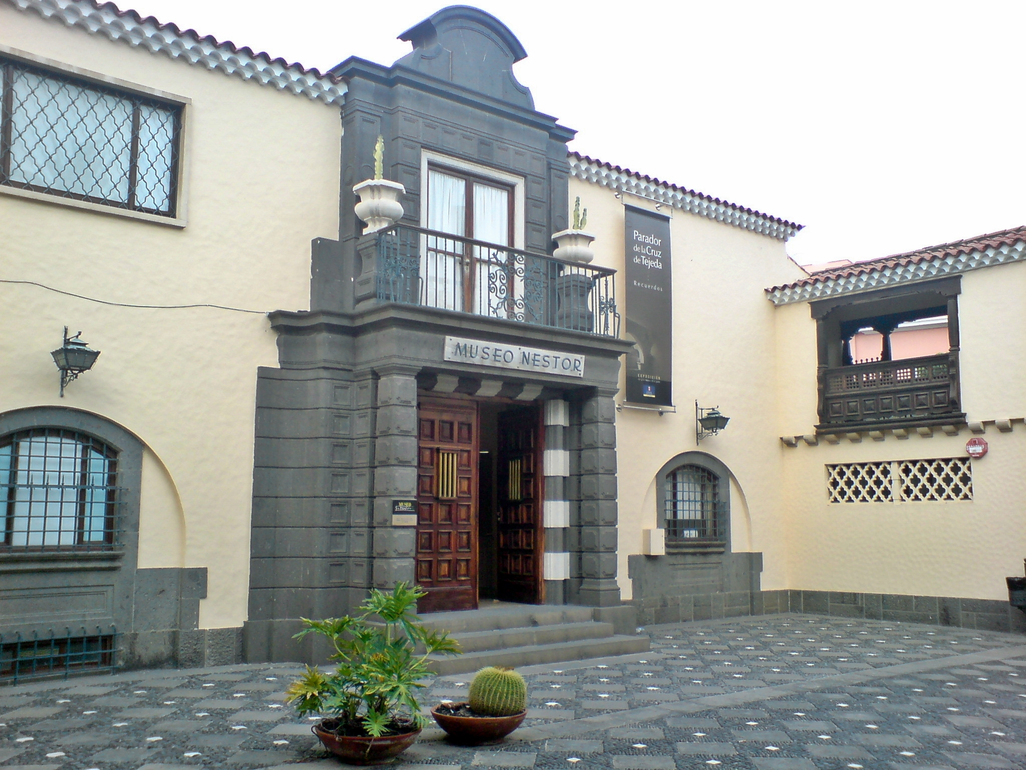 Nestor Museum, Canarian Village "Pueblo Canario". Las Palmas de Gran Canaria, Canary Islands. Museo Néstor Native nameMuseo NéstorLocationLas Palmas de Gran Canaria, Islas Canarias, (Spain)Coordinates28° 07′ 15.08″ N, 15° 25′ 37.6″ W Established1956Web page control : Q2884470 VIAF: 127387494 GND: 5051159-2 BNE: XX85499 institution QS:P195,Q2884470